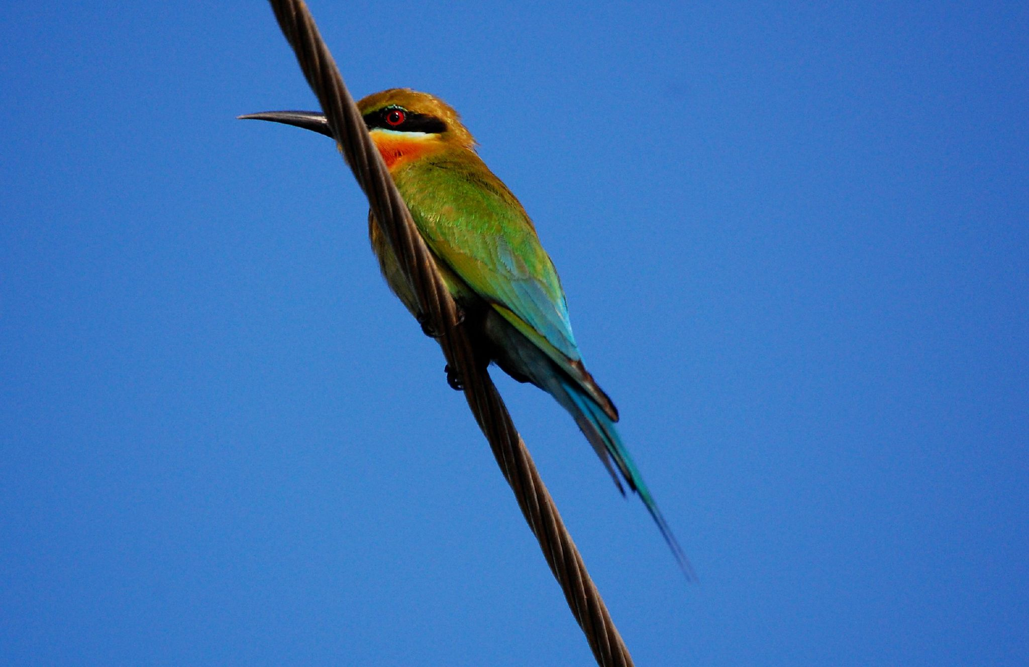 Let the blue sky Soar with jealousy..